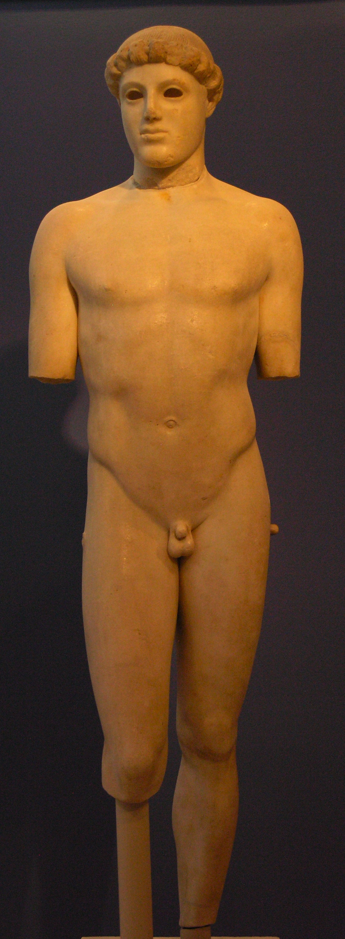 Statue of an ephebe, perhaps an athlete. Work attributed to Kritios and Nesiotes, by comparison with the Tyrannoktonoi group, one of their works known from Roman copies. Missing arms from elbows, left foot and ankle, right leg from below knee, inserted eyes. Damaged nose, chin, cheeks and neck.